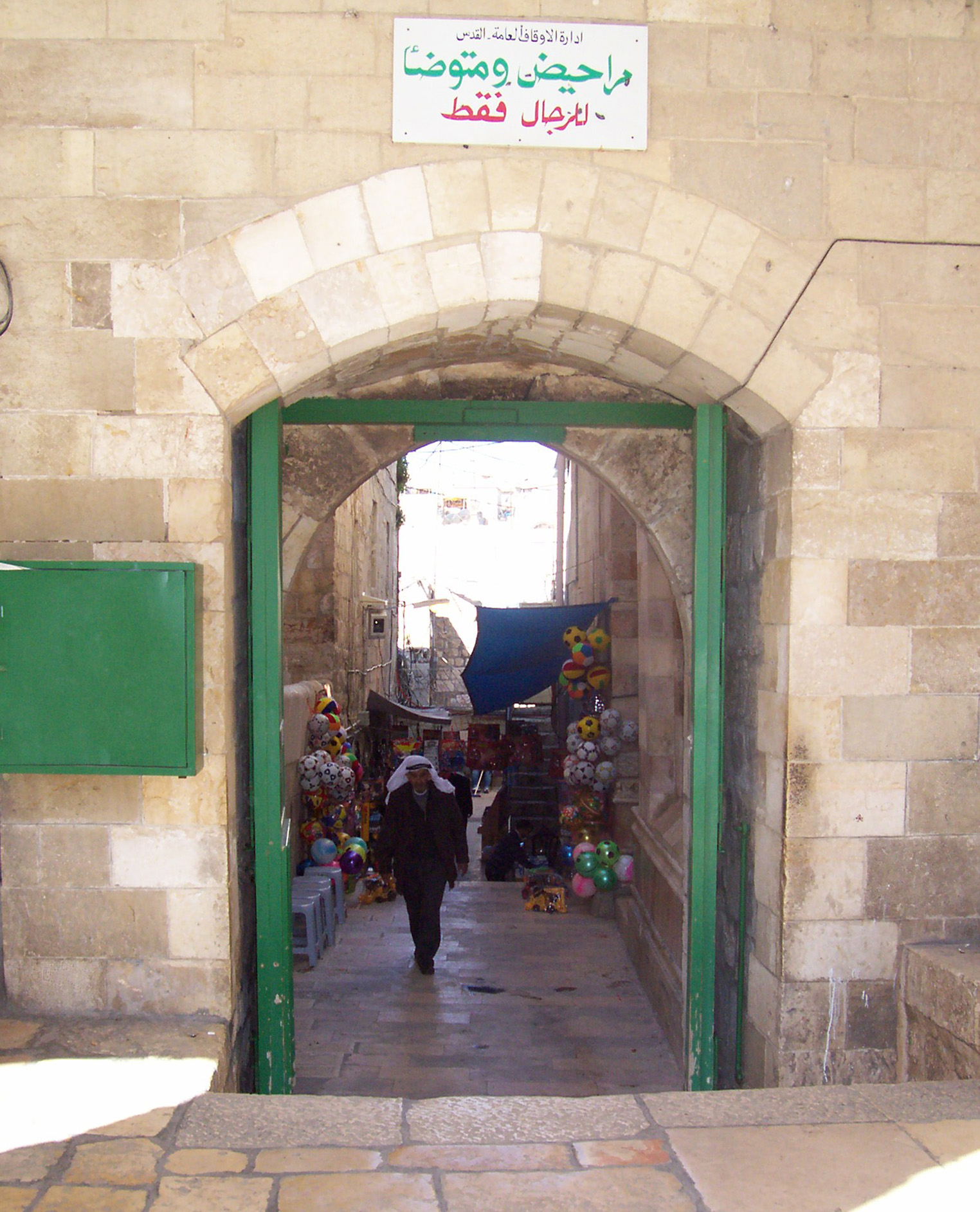 Ablution Gate at the western wall of the Temple Mount